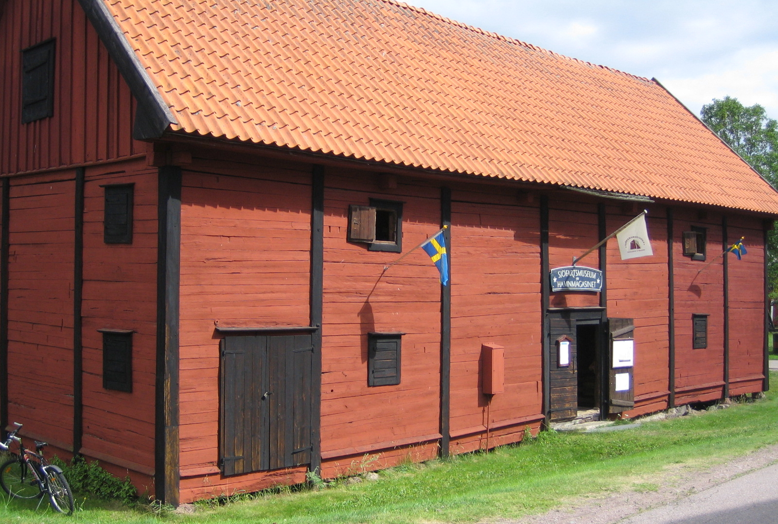 Hamnmagasinet, local museum in Figeholm, Oskarshamn municipality, Sweden